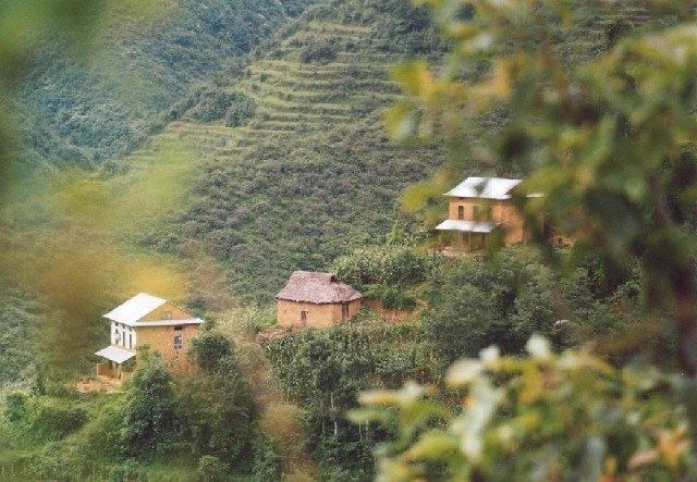 A village inhabited by Tamang. From [1], by mrmp.